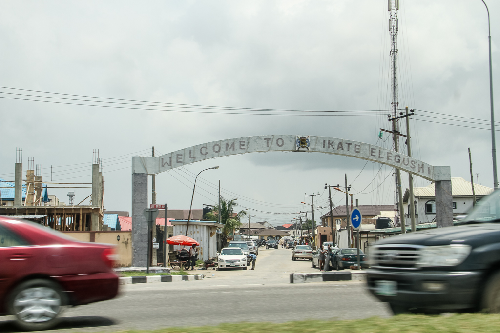 Entrace to Ikate Elegushi Estate at Lekki